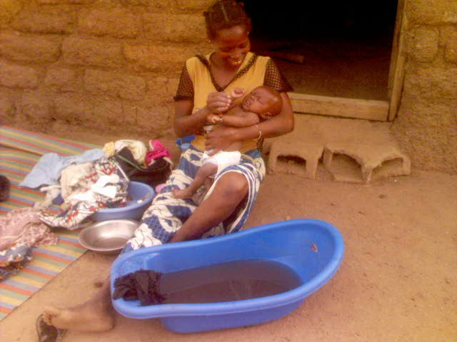 Une jeune maman s'occupant de son bébé